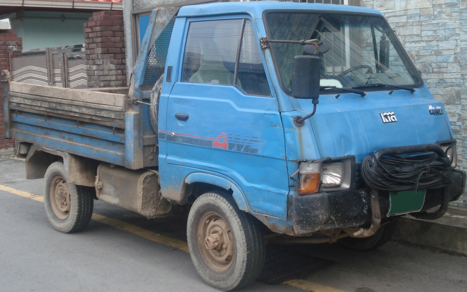 Kia Ceres